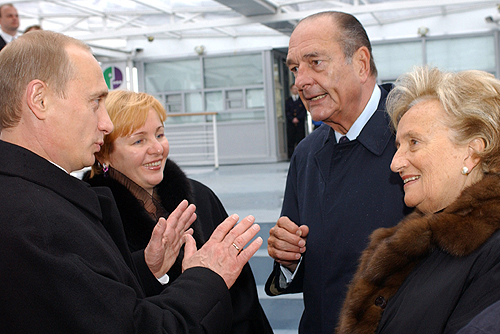 ST PETERSBURG. President Putin and his wife, Lyudmila, meeting with French President Jacques Chirac and his wife, Bernadette (far right).